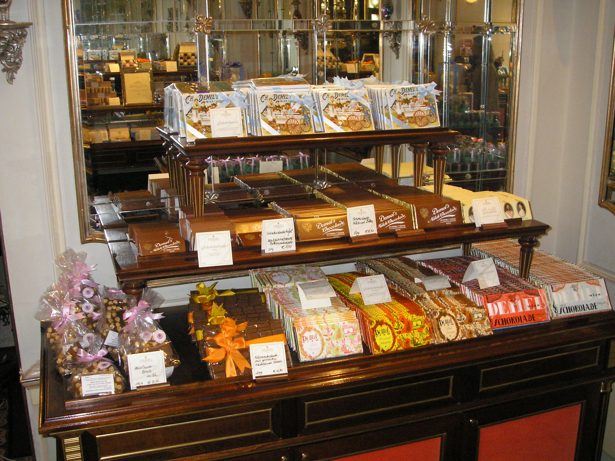 Description: Interior view of the Café Demel in Vienna. Source: self-made, I release it into the public domain. Gryffindor 22:21, 23 March 2006 (UTC)